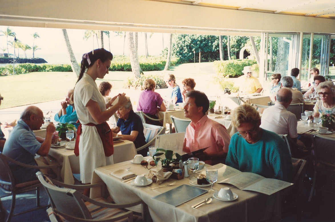 A waitress taking a breakfast order at Kahala Hilton Hotel, Hawaii, USA.